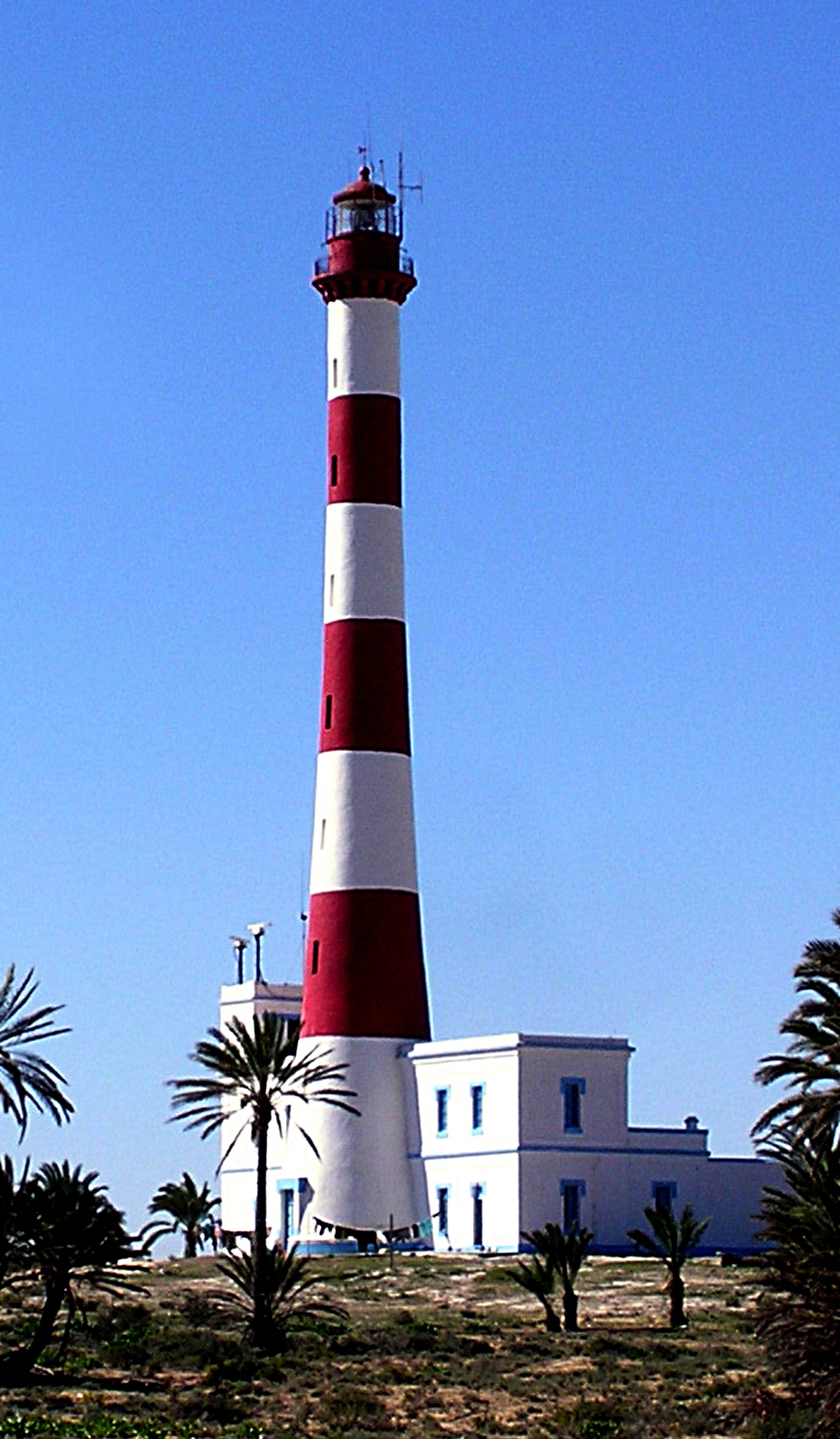 Tourgueness lighthouse in Djerba - Tunisia